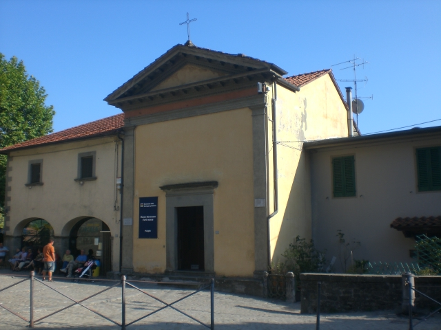 Museo Diocesiano di Arte Sacra in Popiglio (Piteglio, Pistoia, Tuscany)